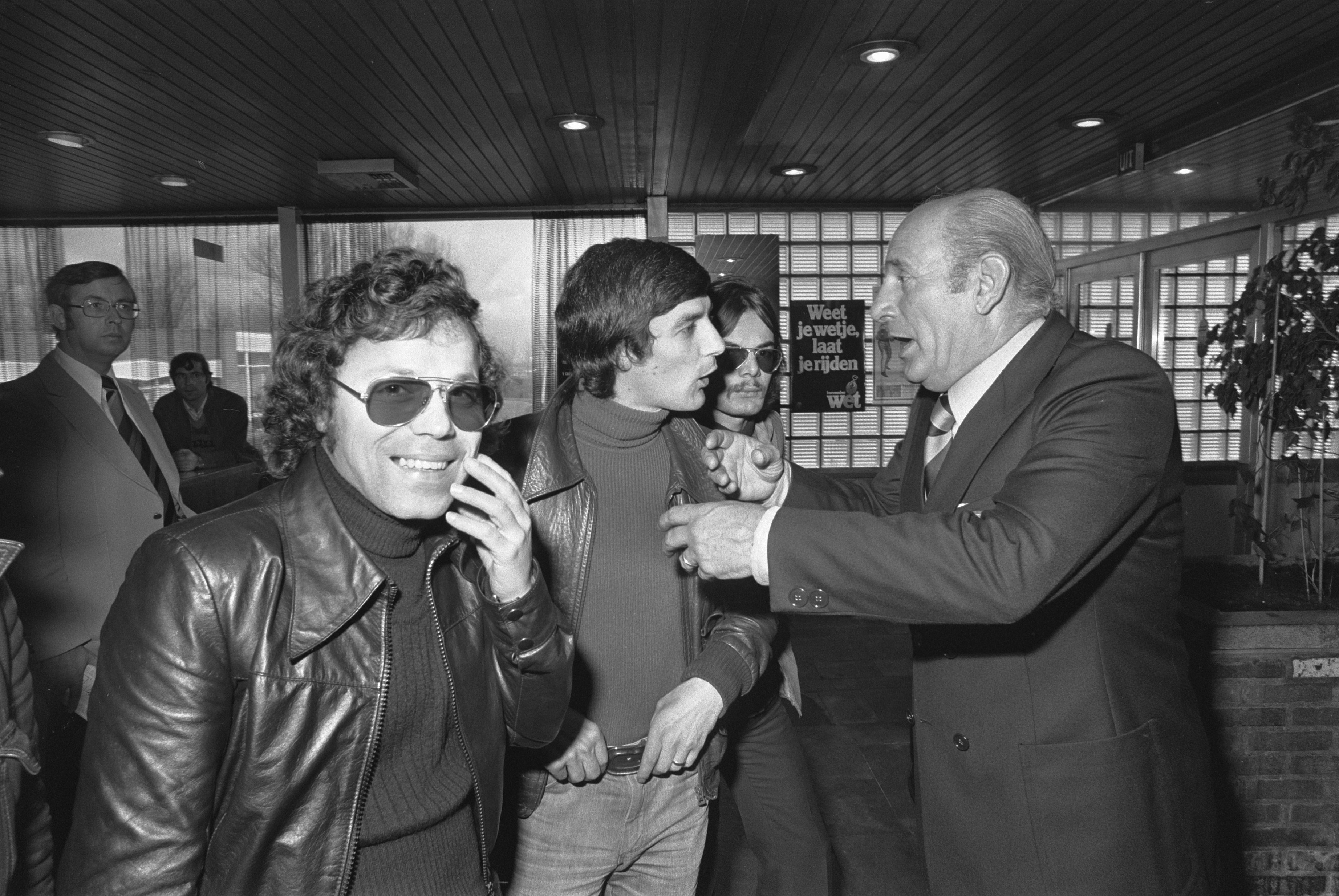 Fulvio Bernardini (left) and players of the Italian squad in a motel in Rotterdam. 19 November 1974, one day before the match of the national football teams of the Netherlands and Italy (3-1).